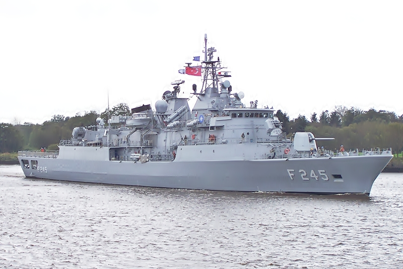 F245 TCG Orucreis heads back down the Clyde after a weekend in Glasgow, before exercise JW112